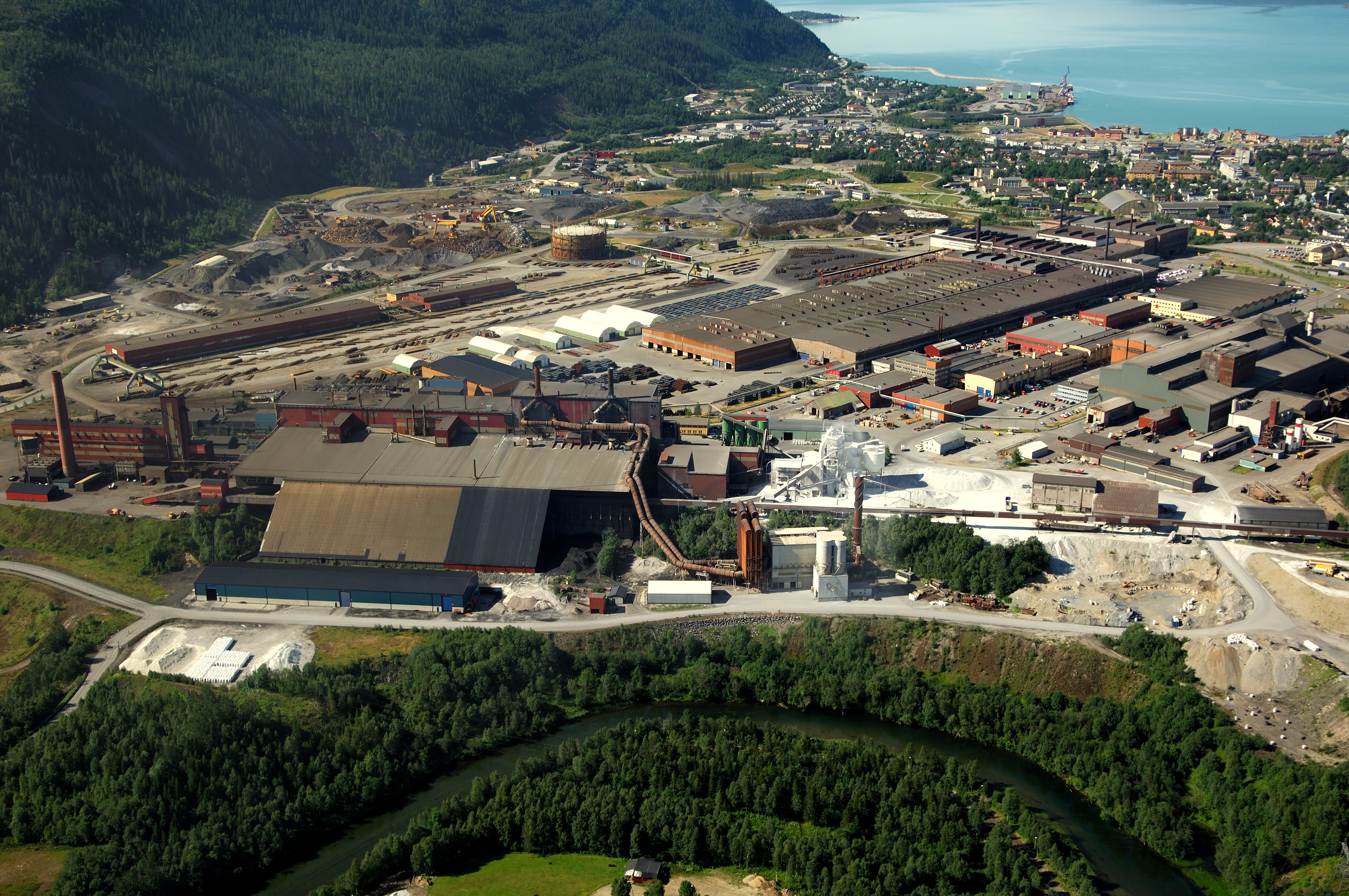 Mo industripark